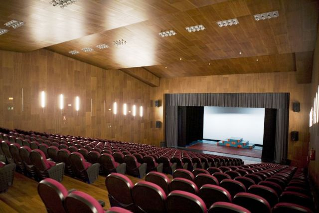 Teatro ESAD Málaga.